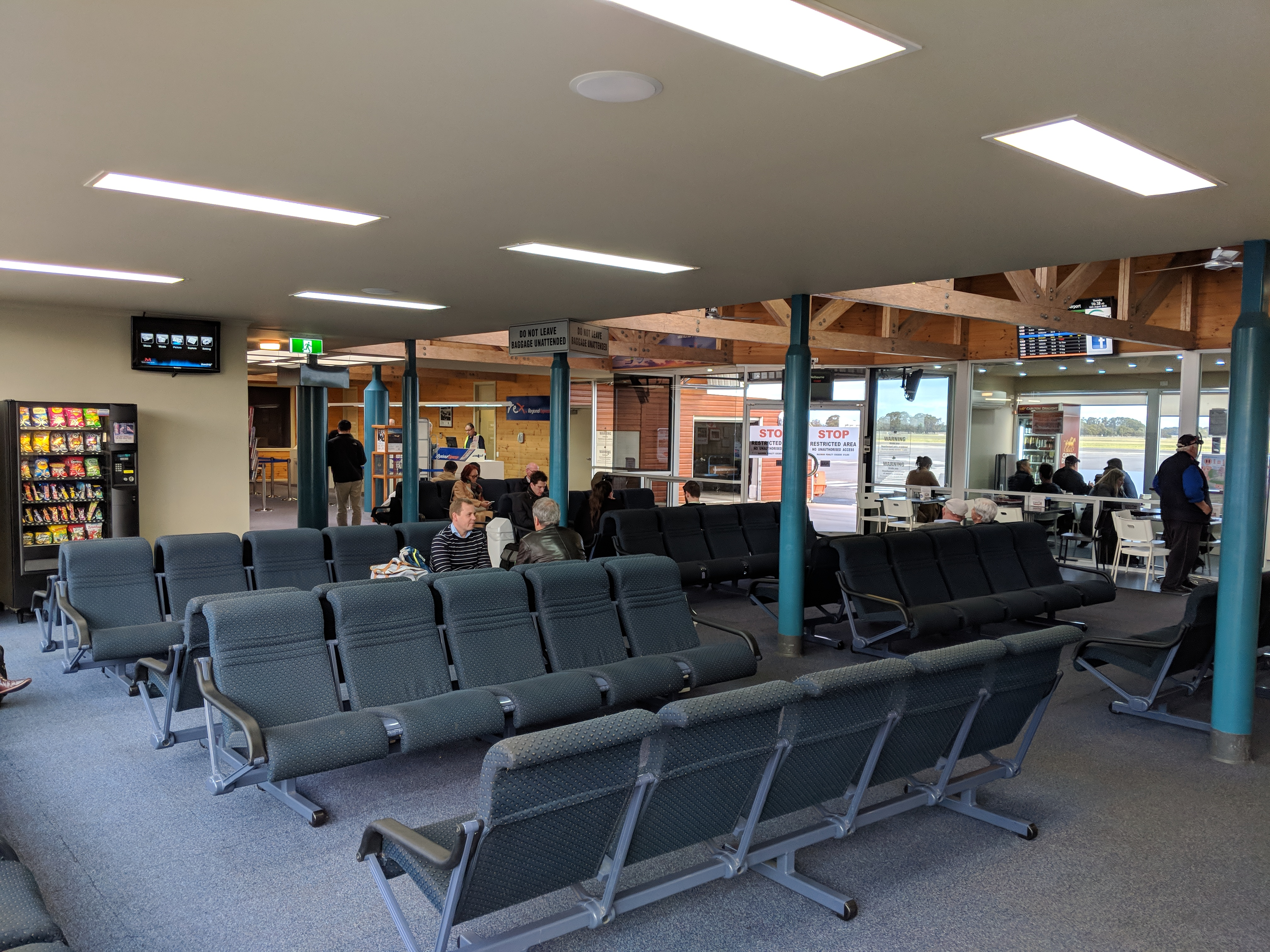 Waiting lounge of the terminal of Mount Gambier Airport, Wandilo, South Australia. Gate 1 (leading to the airfield) is in the background, with check-in counters to the immediate left and a café to the immediate right. Not seen in the photograph are Gate 2 to the left of the check-in counters (which is not in use), car rental counters to the right of the café, and baggage claim behind the photographer.